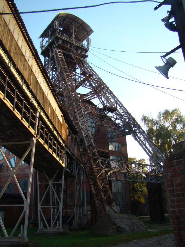 Mine Michal in Ostrava